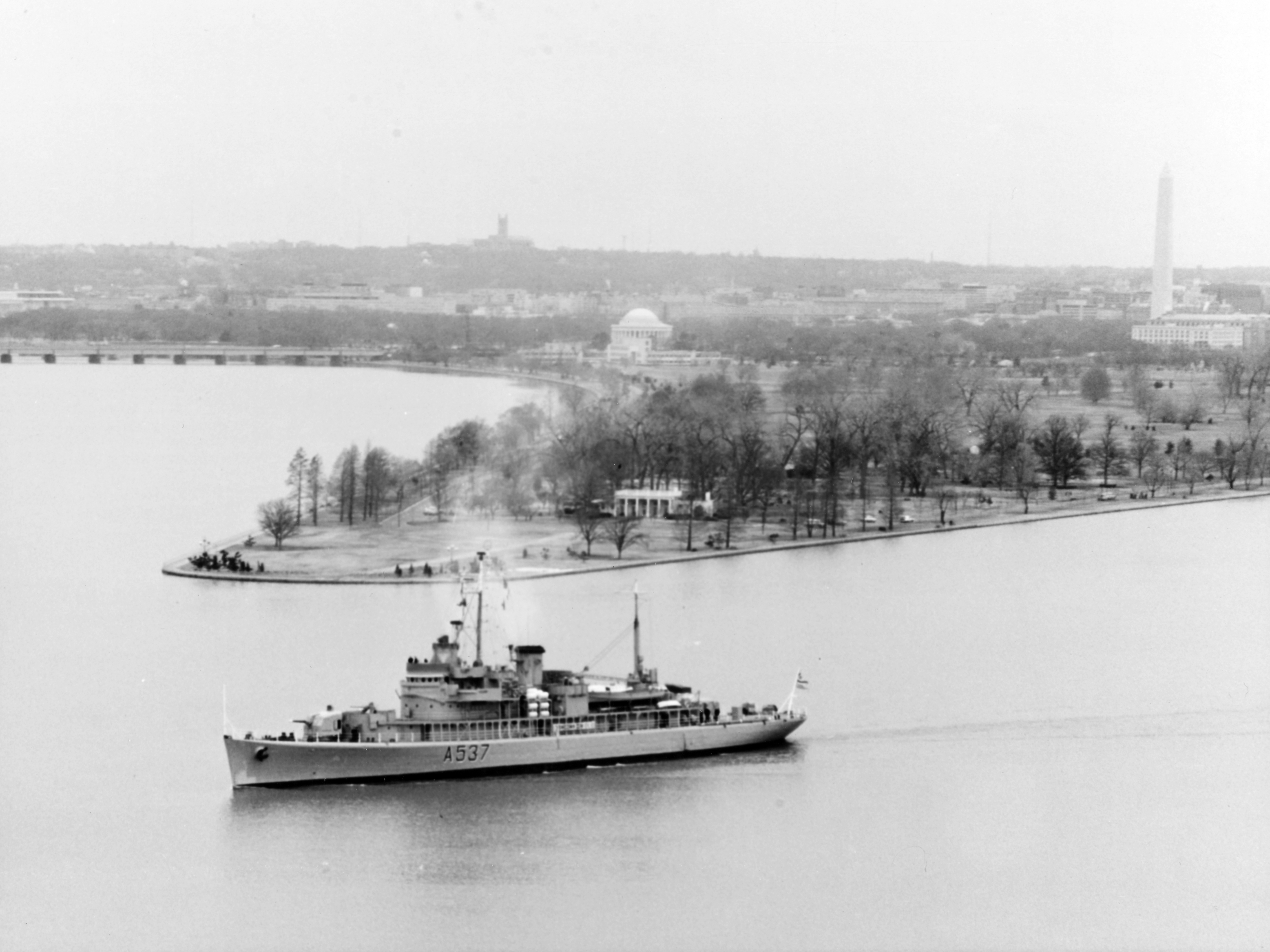 The Norwegian training ship KNM Haakon VII (A537) off Washington D.C. (USA), in March 1970. Haakon VII, a 2800-ton training ship, was converted from the U.S. Navy seaplane tender USS Gardiners Bay (AVP-39). Transferred to the Norwegian Navy in May 1958, she travelled widely in her new role as naval cadet training ship. Haakon VII was disposed of in 1974. She passes Hains Point, Washington, D.C., following a visit to the Washington Navy Yard, 9 March 1970. Monuments and landmarks visible in the background include the National Cathedral (on ridgeline in center distance), the Jefferson Memorial (center, middle distance) and the Washington Monument (right distance).